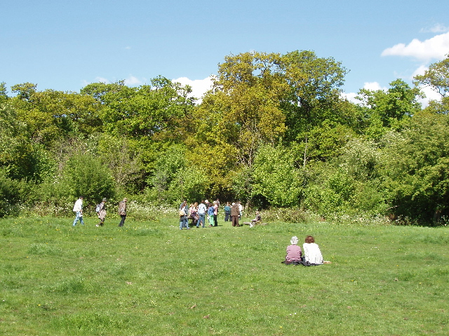 Little Elms Meadow, Perivale Wood. This ancient unploughed meadow is grazed from May to October each year. View on open day. See 1279643 for more information about this nature reserve.